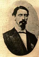 Photograph of Venezuelan President José Ruperto Monagas (1831-1880).